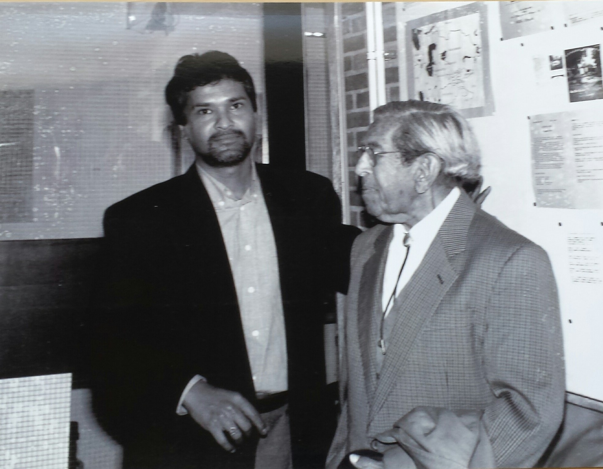 Surinamese-Dutch historian published several times on Surinamese writer Albert Helman (1903-1996). Here they are seen together in 1994.